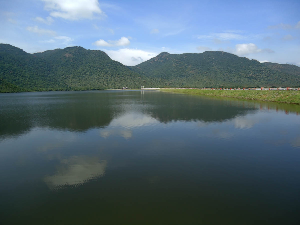 Vaniyar Dam, near Pappireddipatti